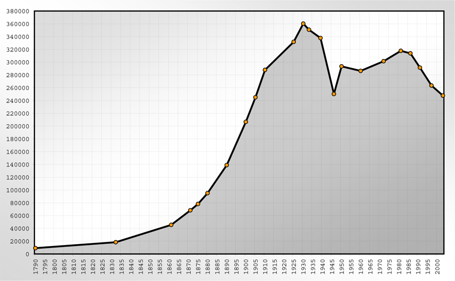 This image shows the population statistics of Chemnitz (Germany).